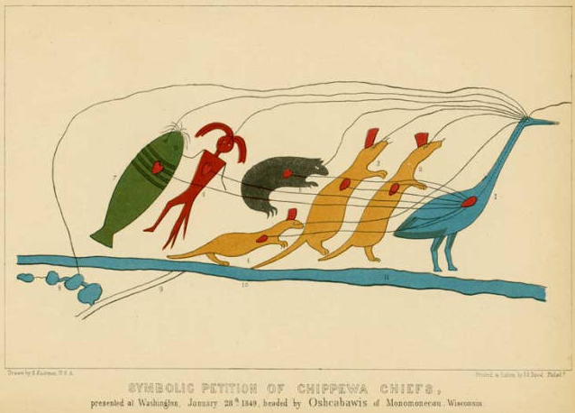 Symbolic Petition of Chippewa Chiefs, presented at Washington, January 28, 1849, headed by Oshcabawis of Monomonecau, Wis.